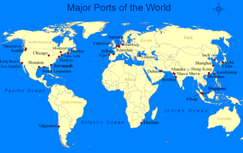 A map of all the major ports in the world.